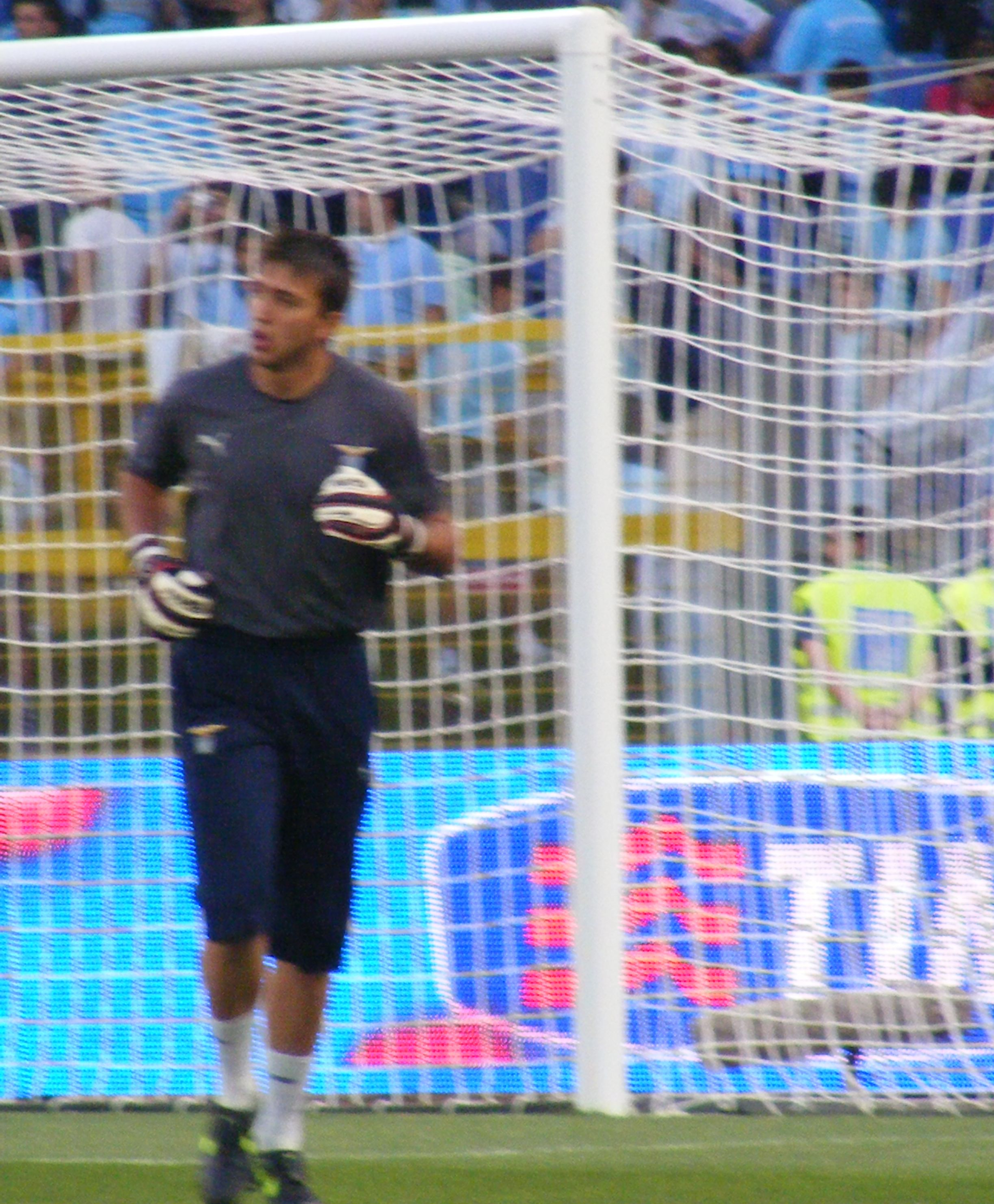 Fernando Muslera against Sampdoria